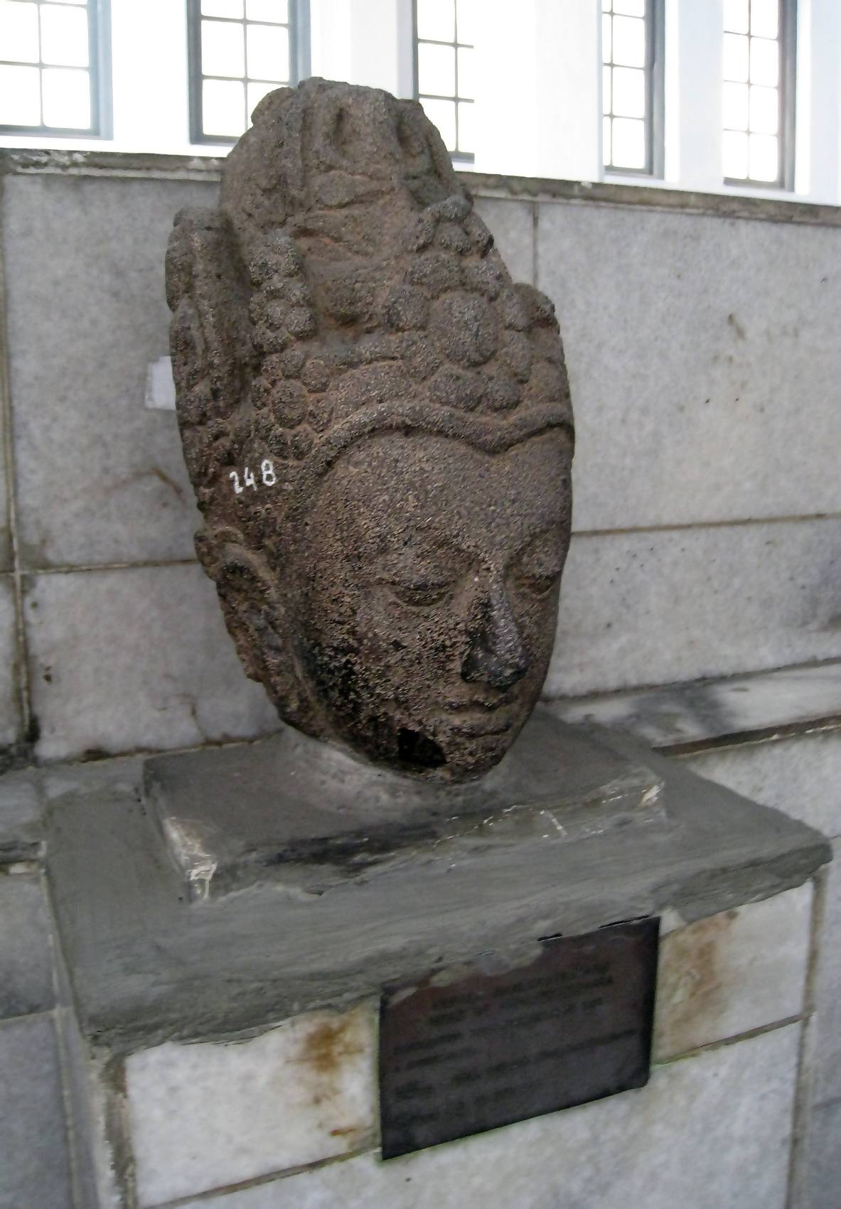 The stone head of Avalokiteshvara Boddhisattva, discovered in Aceh. The Amitabha Buddha is adorned his crown. Srivijayan art, estimated 9th century CE. Collection of National Museum of Indonesia, Jakarta Inv. 248.